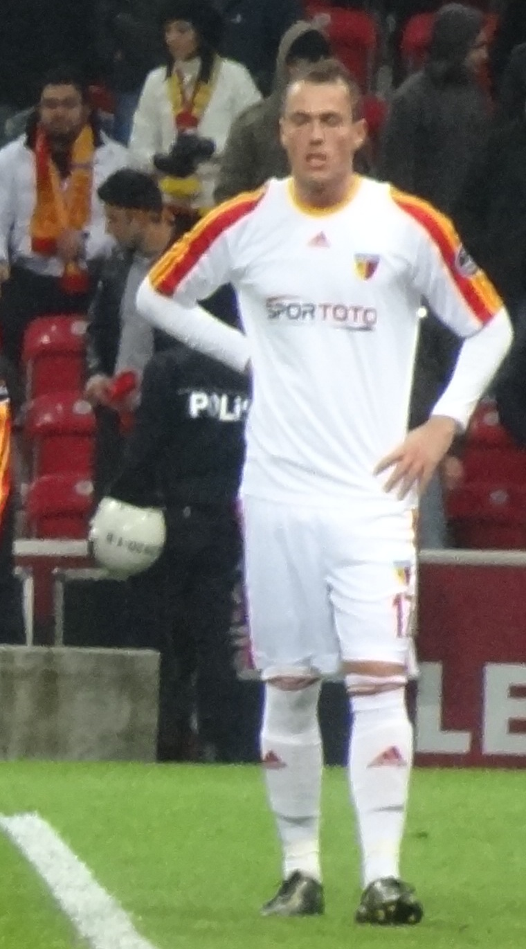 Emir kayserispor formasıyla